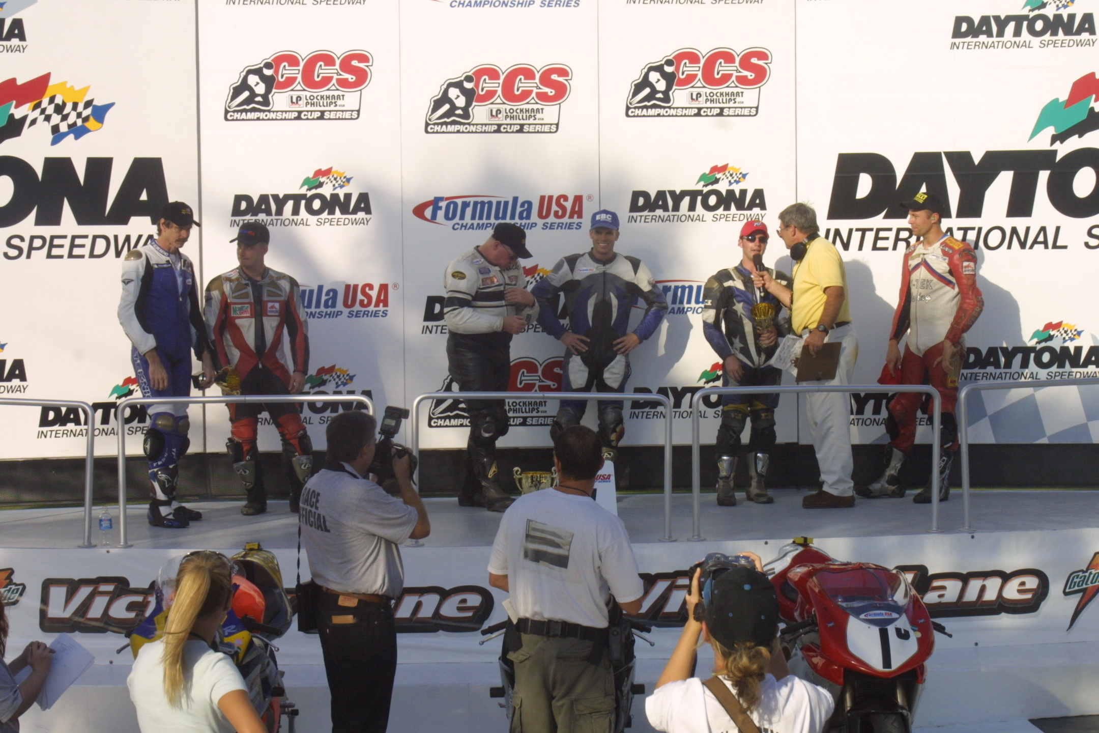 Oct.2003 Podium ceremonies Daytona International Speedway